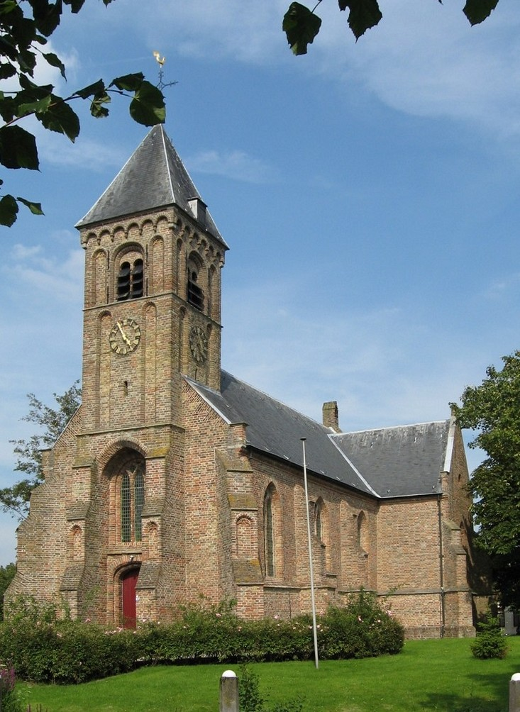 church in Noordgouwe